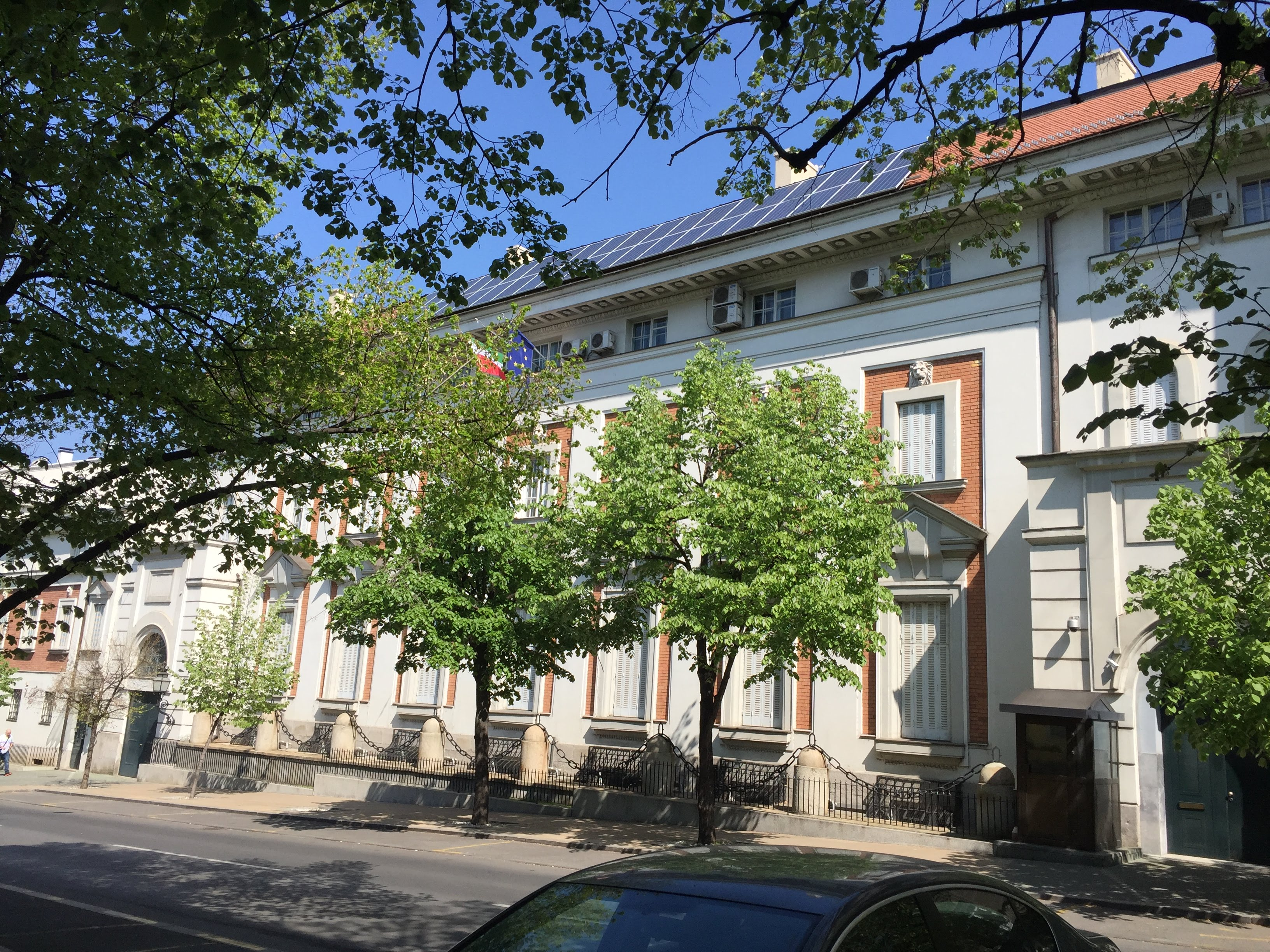 Embassy of Italy in Belgrade.